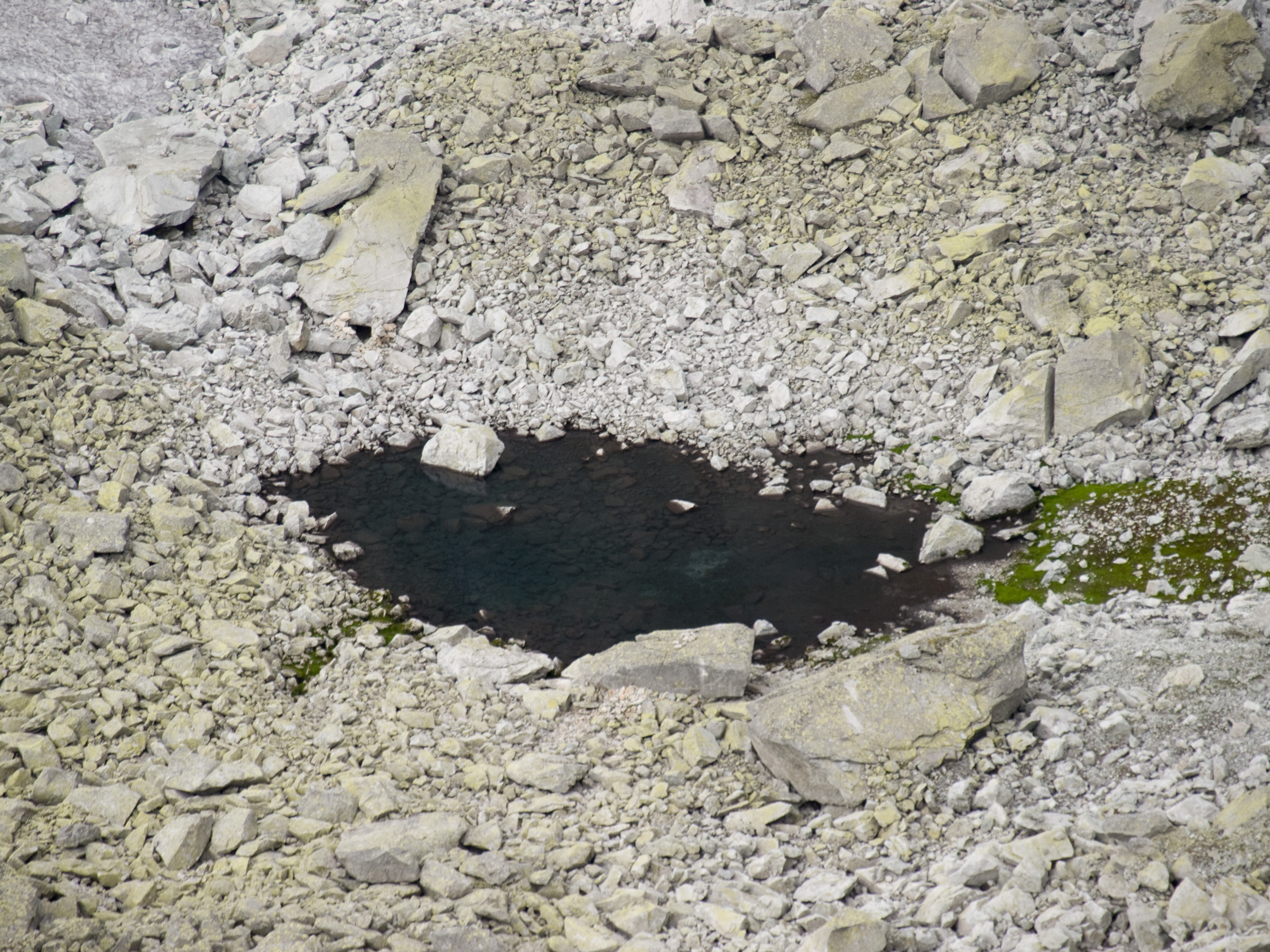 Vyšné Rumanovo pliesko